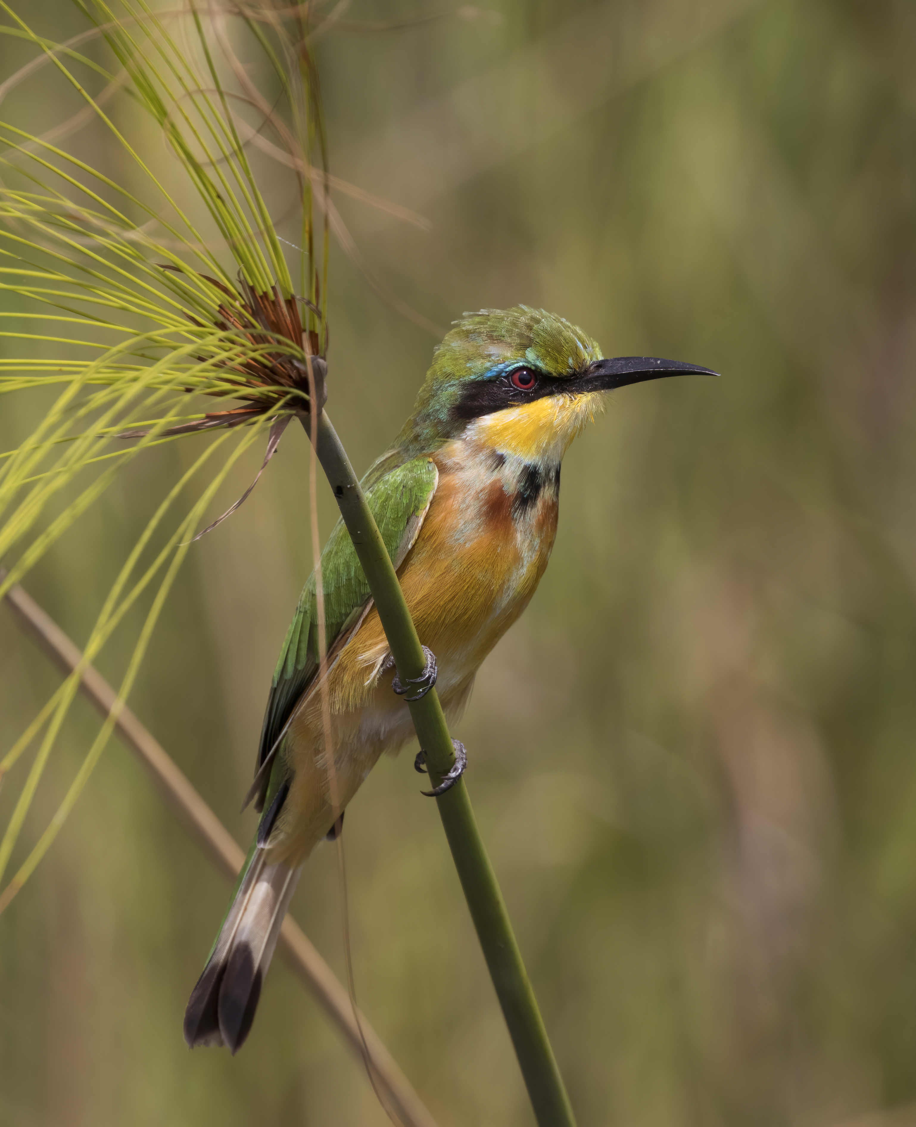 Little bee-eater (Merops pusillus argutus), Linyanti River, Nkasa Rupara National Park, Namibia